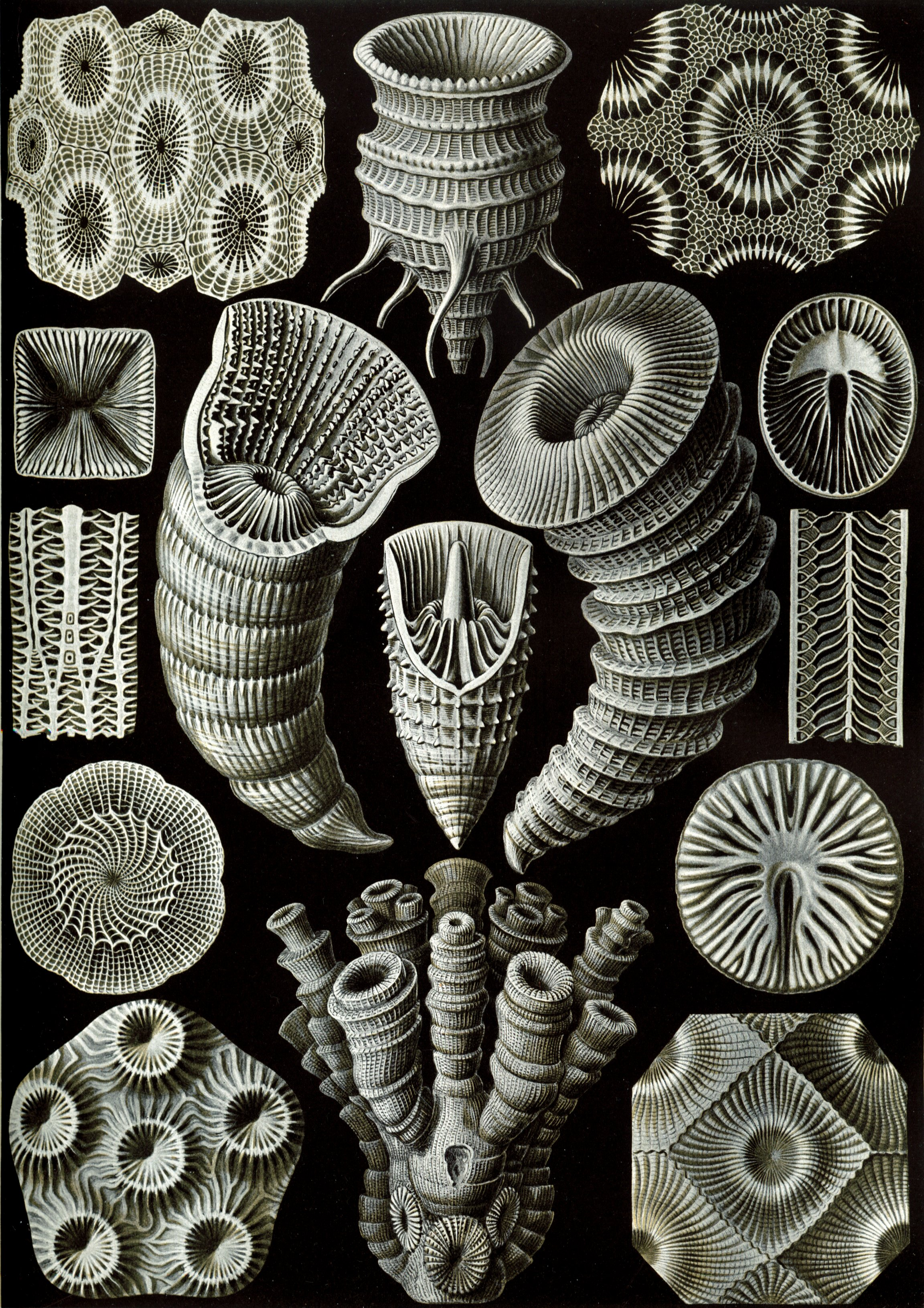 Omphyma turbinata (Milne Edwards) = Omphyma turbinata (Linnaeus, 1761), polyp skeleton from the side Cyathophyllum marmini (Milne Edwards) = Marisastrum marmini (Milne-Edwards & Haime, 1851), coral head in cross-section Pachyphyllum devoniense (Milne Edwards) = Phillipsastrea devoniensis Milne-Edwards & Haime, 1851, coral head in cross-section Goniophyllum pyramidale (Milne Edwards) = Goniophyllum pyramidale (Hisinger, 1831), polyp skeleton from above Menophyllum tenuimarginum (Milne Edwards) = Menophyllum tenuimarginatum Milne-Edwards & Haime, 1850, polyp skeleton from above Zaphrentis cornicula (Lesueur) = Zaphrentis phrygia Rafinesque & Clifford, 1820, polyp skeleton from the side with part of wall removed Cyathophyllum expansum (d'Orbigny) (non Fisher, 1837: preoccupied) = Palaeosmilia murchisoni stutchburyi (Milne-Edwards & Haime, 1851), polyp skeleton from the side Cyathaxonia cynodon (Rafinesque) = Cyathaxonia cynodon (Rafinesque & Clifford, 1820), polyp skeleton from the side with part of wall removed Lithostrotion irregulare (Milne Edwards) = Siphonodendron irregulare (Philips, 1836), polyp skeleton in lengthwise section Alveolites battersbyi (Milne Edwards) = Caliapora battersbyi (Huxley, 1851), polyp skeleton in lengthwise section Hadrophyllum multiradiatum (Milne Edwards) = Hadrophyllidae?, polyp skeleton from above Clisiophyllum turbinatum (James Thompson) = Dibunophyllum bipartitum turbinatum Thompson, 1874, polyp skeleton in cross-section Acervularia ananas (Schweigger) = Acervularia ananas (Linnaeus, 1758), coral head from above Syringophyllum organum (Milne Edwards) = Sarcinula organum Linnaeus, 1767, coral head from above Cyathophyllum articulatum (Milne Edwards) = Entelophyllum articulatum (Wahlenberg, 1821), coral head from the side